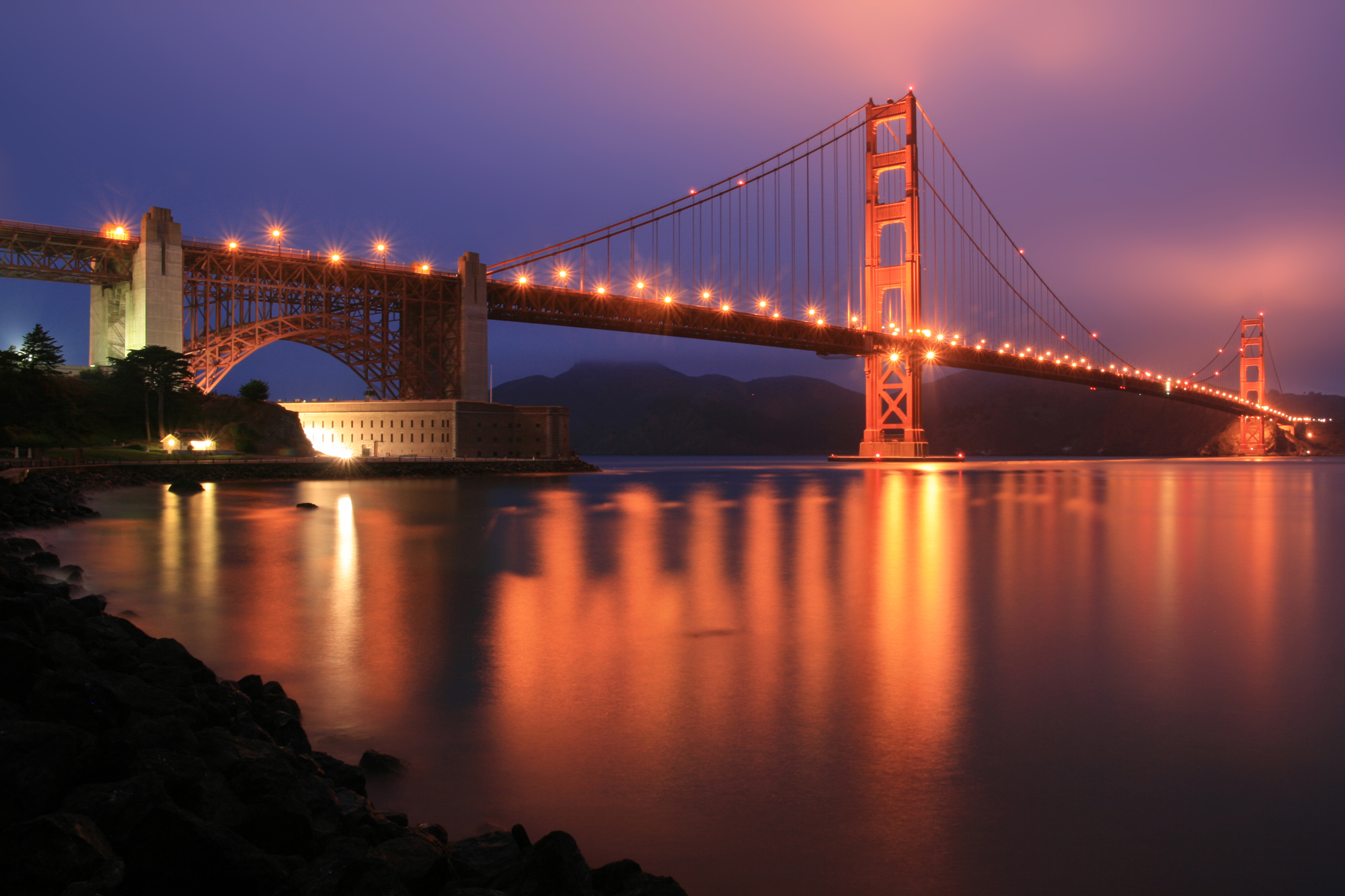 Fort Point National Historic Site and Golden Gate Bridge.